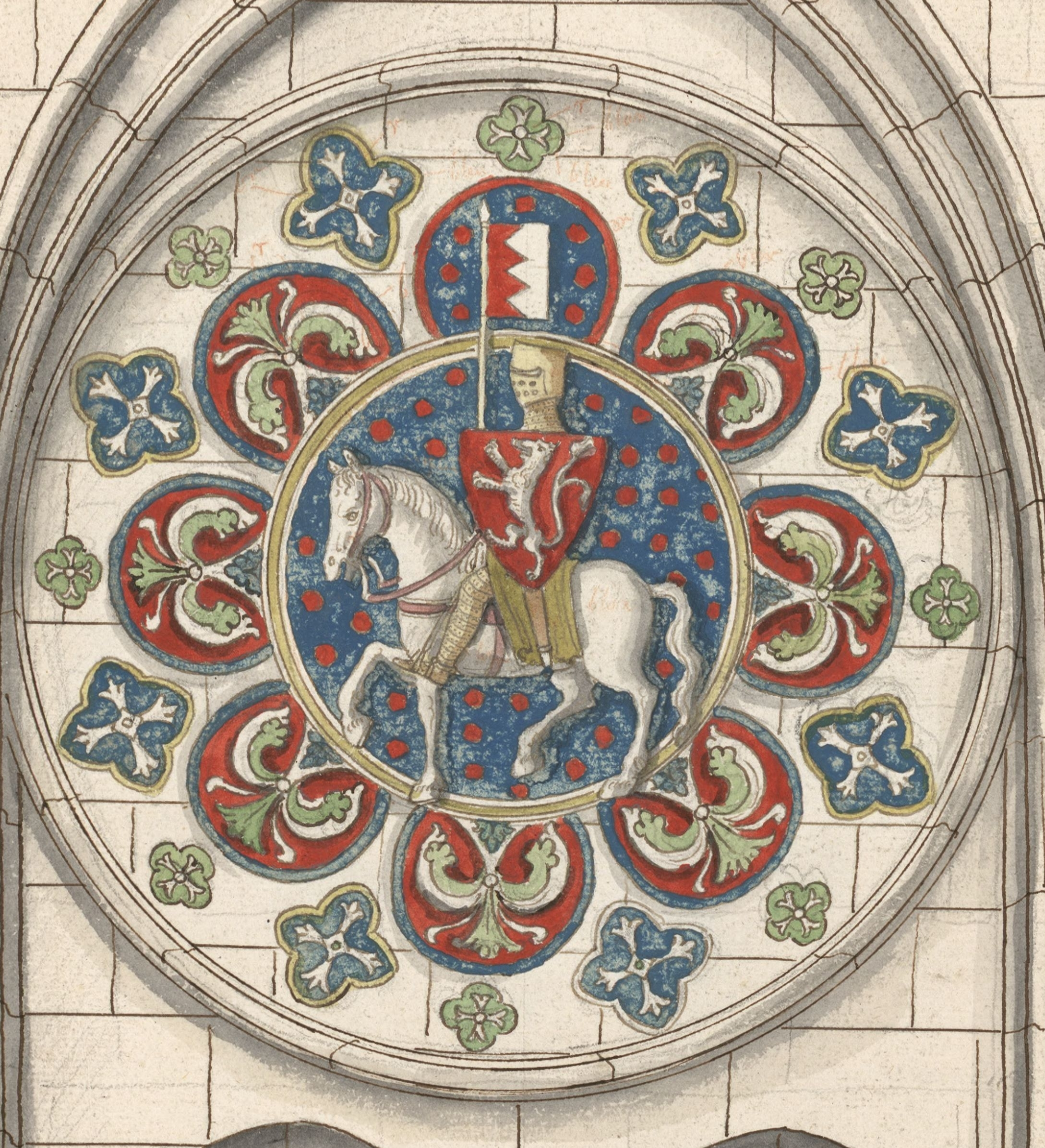 Amaury VI de Montfort